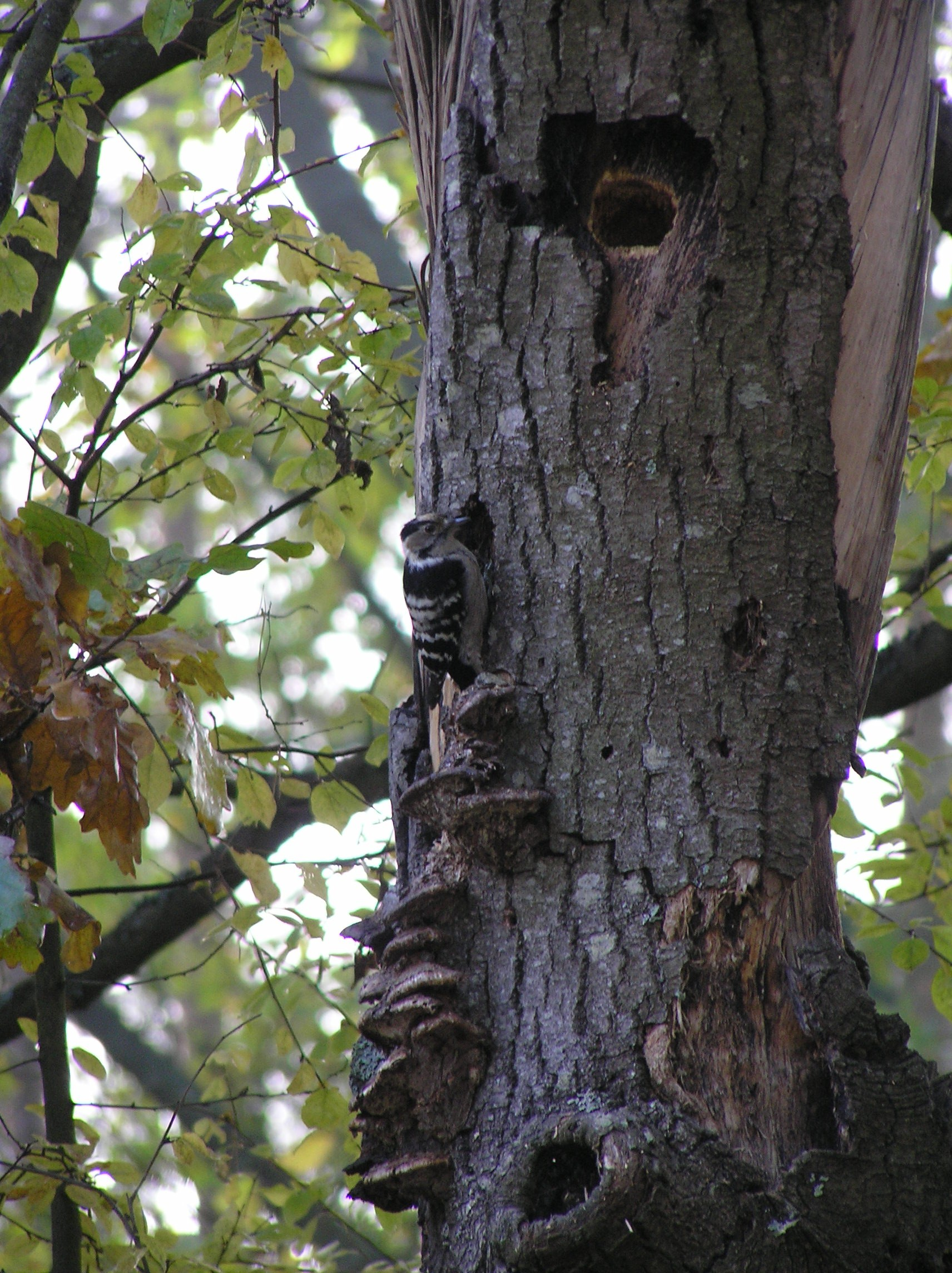 Dendrocopos minor hollownes and mushrooms tree, Brok, Poland